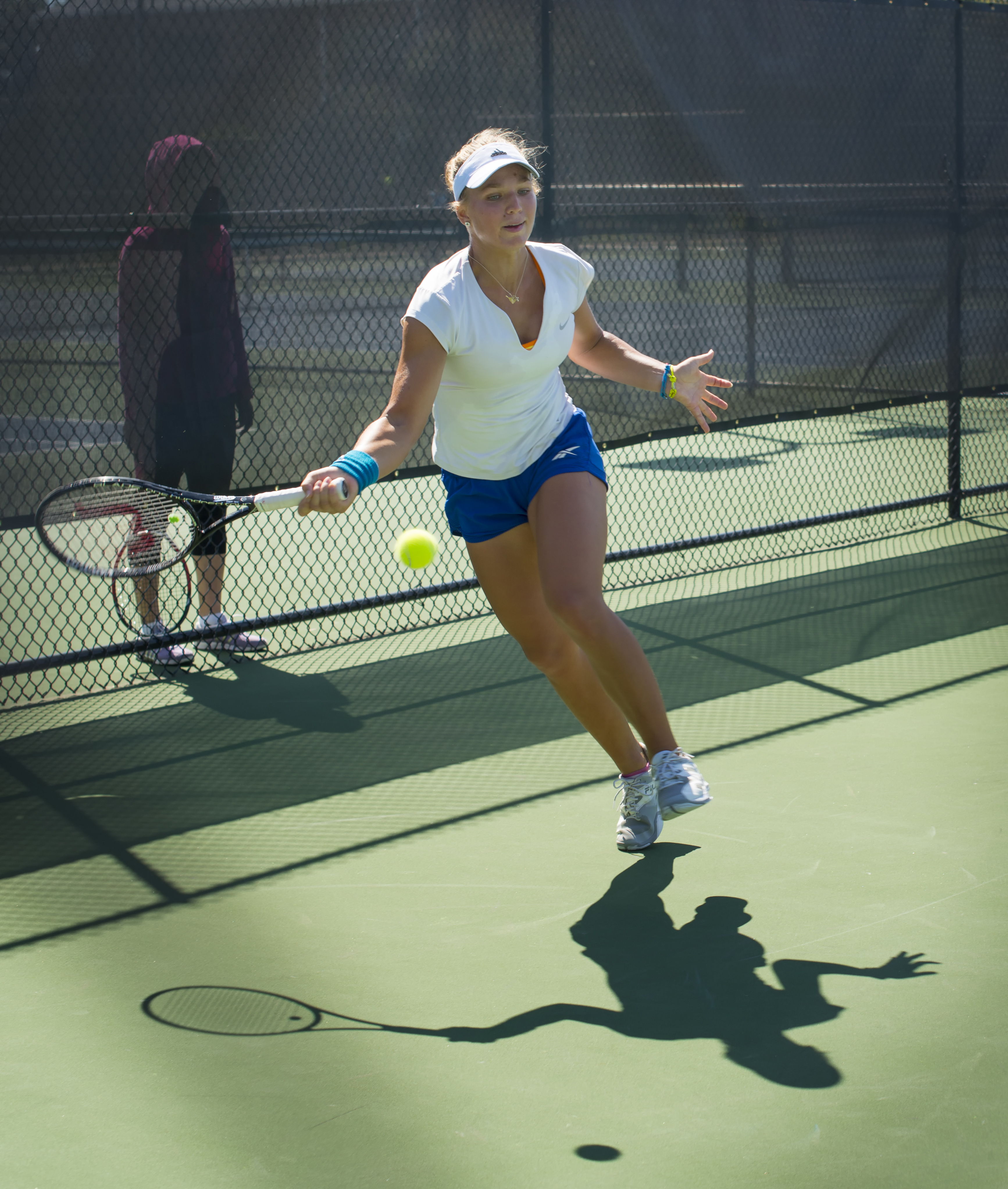 Akvilė Paražinskaitė at the 2014 Rock Hill Rocks Open